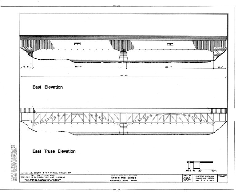 HAER (Historic Ameircan Engineering Records, Department of the Interior, Deer Mill Covered Bridge, Shades State Park, Montgomery County